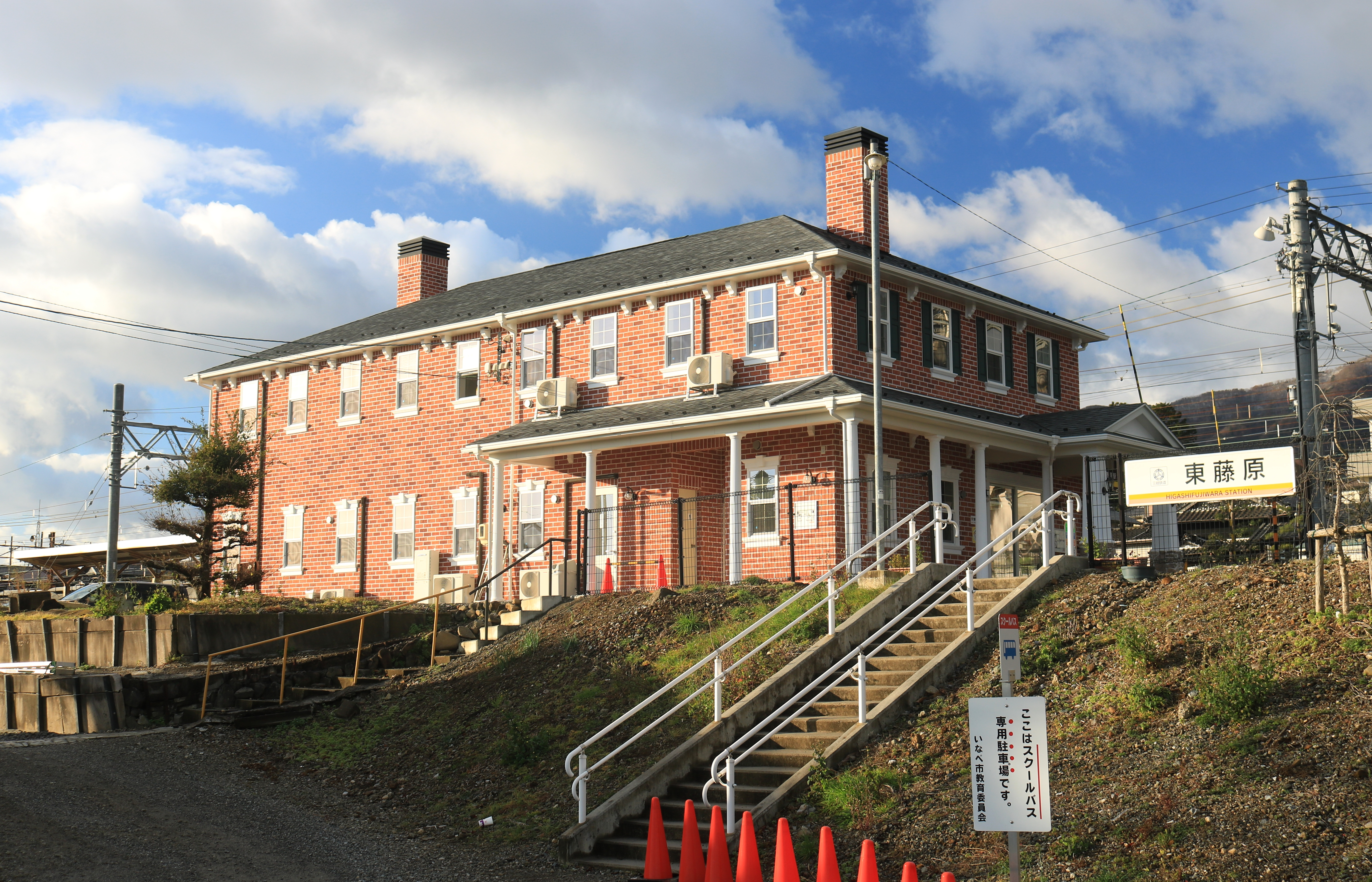 Higashifujiwara Station on the Sangi Line in Inabe, Mie Prefecture, Japan Canon EOS Kiss X8i